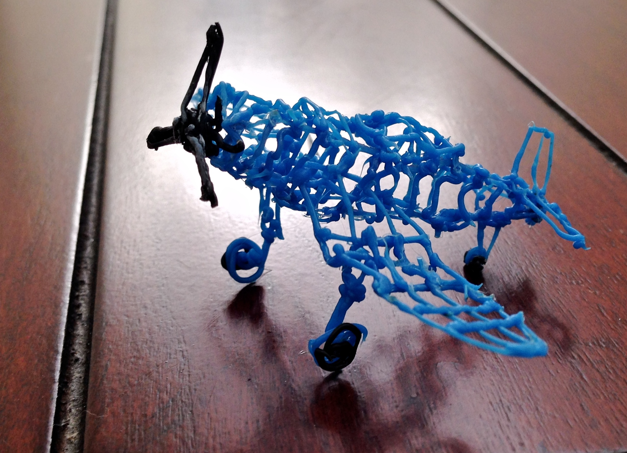 A Corsair model airplane drawn using 3Doodler on a coffee table.